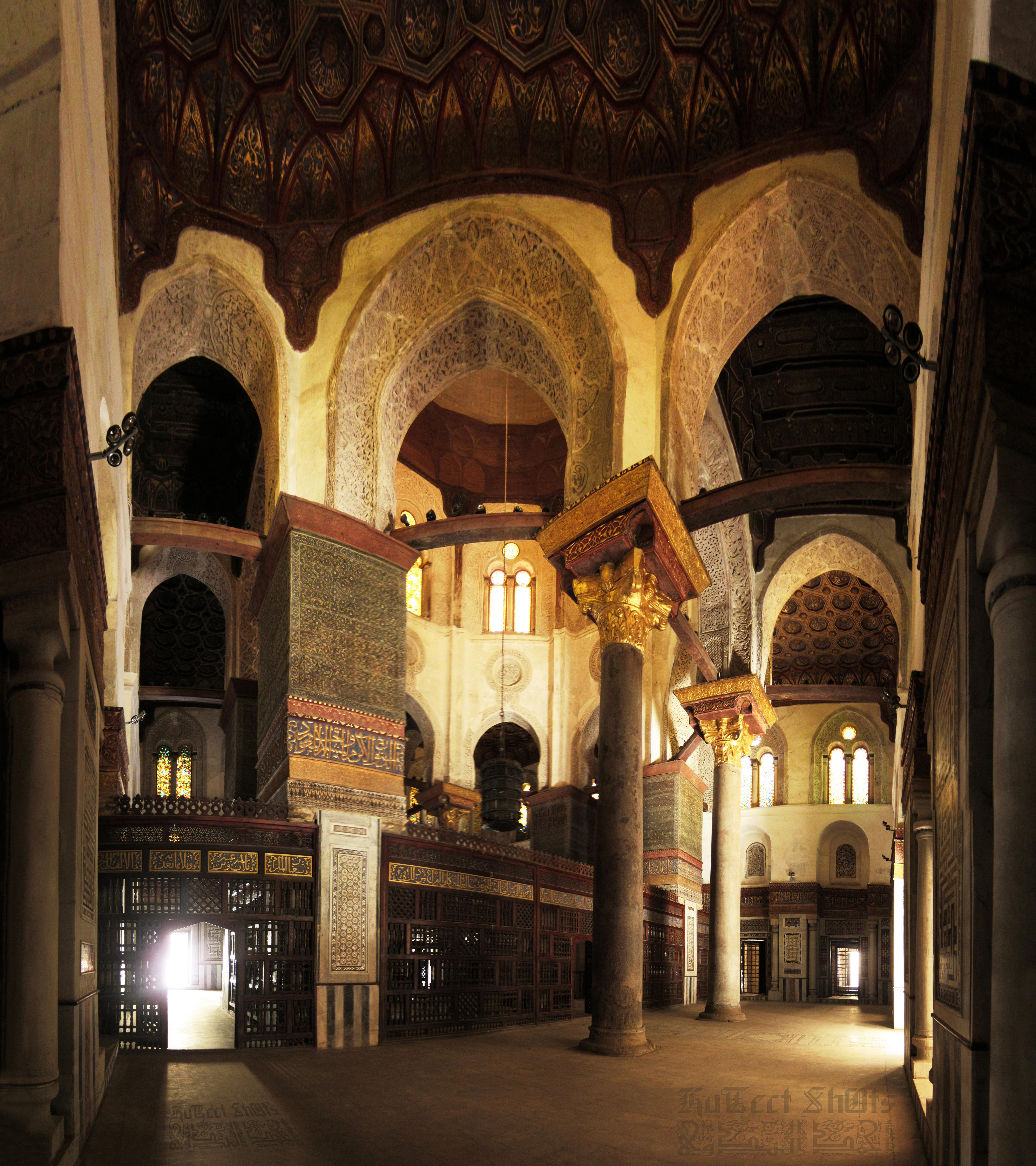 The complex of Sultan Qalawun was built for the sultan by Amir 'Alam al-Din Sanjar al-Shuja'i in 1284-5 and consisted of the founder's mausoleum, madrasa, and a maristan (hospital). The complex was located on al-Mu'izz Street. The mausoleum's central, domed plan is connected to the madrasa by a long entrance passage, and the plan of both spaces is shifted to accommodate the qibla orientation. The mausoleum, which is separated from the madrasa by this long corridor, is accessible via a small courtyard surrounded by an arcade with shallow domes. The octagonal structure was roofed by a dome which was destroyed in the 18th century. The current concrete dome, which is a replica of that covering the Mausoleum of al-Ashraf Khalil ibn Qalawun (1288), was built by Max Herz Bey in 1903. The octagonal base is transformed into a circle by means of wooden muqarnas. The elaborate interior decoration includes marble revetment, carved, painted, and gilded wood, carved marble, and stucco. Source